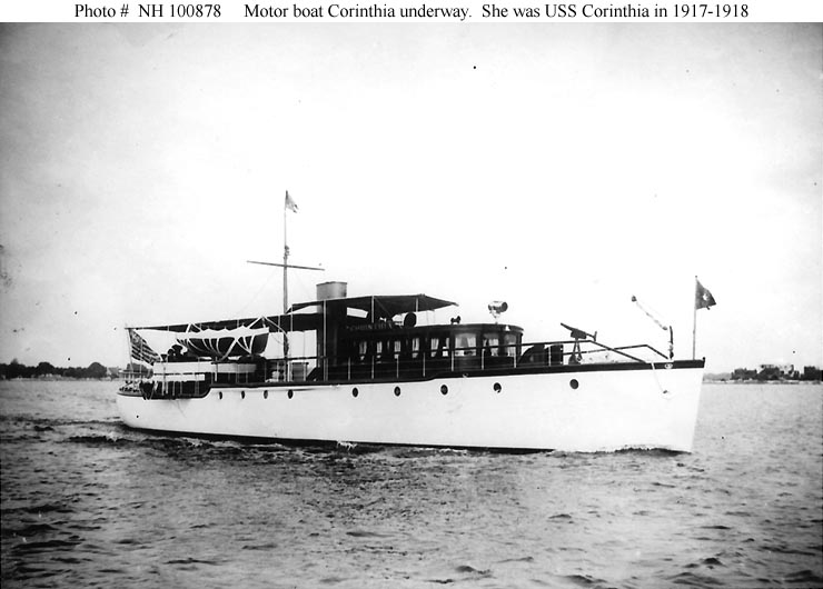 The private motorboat Corinthia sometime prior to her United States Navy service as the patrol vessel